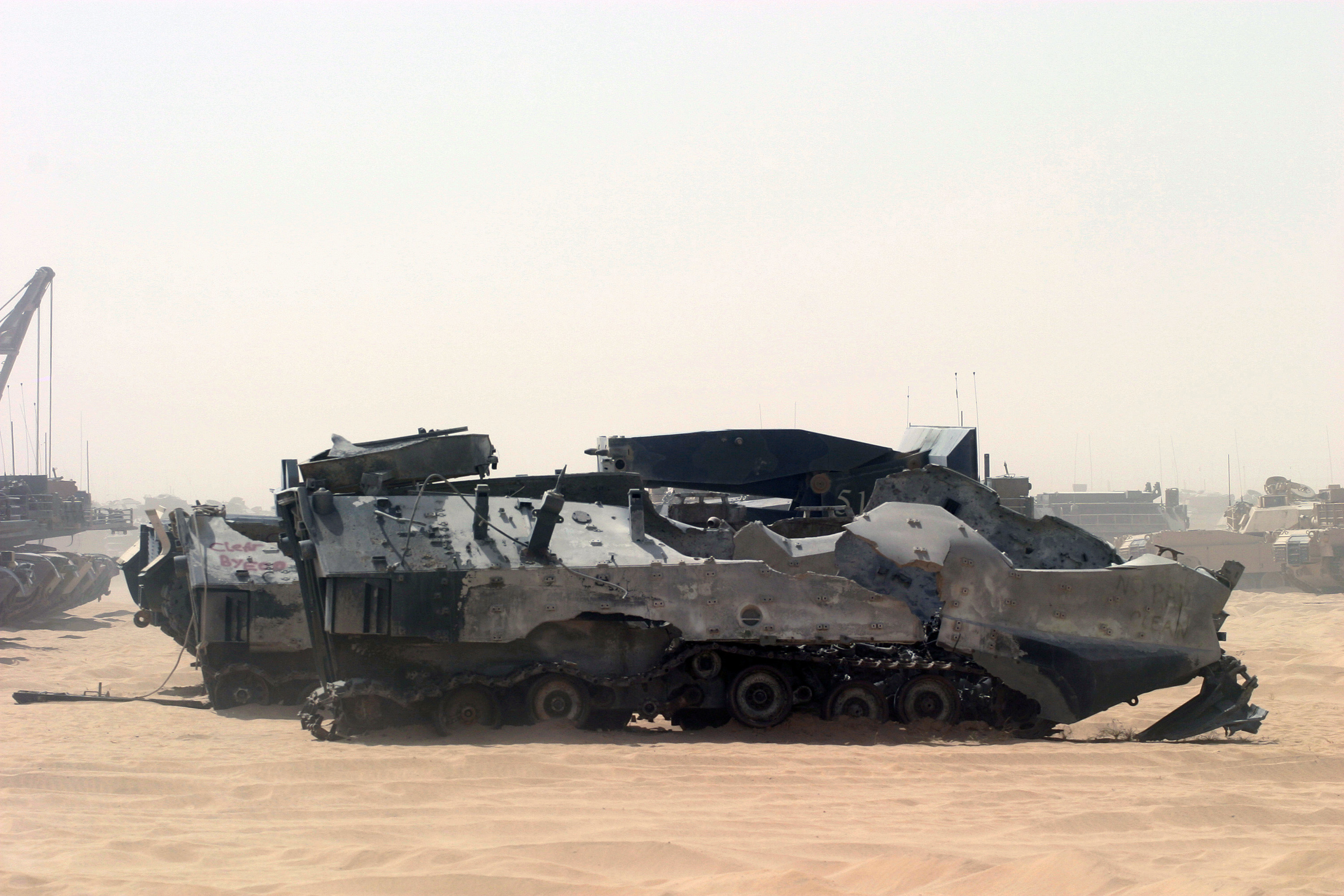 Heavily damaged US Marine Corps (USMC) Amphibious Assault Vehicles (AAV7A1) equipped with a mine plow, waits shipment at Camp Fox, Kuwait during Operation IRAQI FREEDOM. The Vehicle was reportedly destroyed by friendly fire.